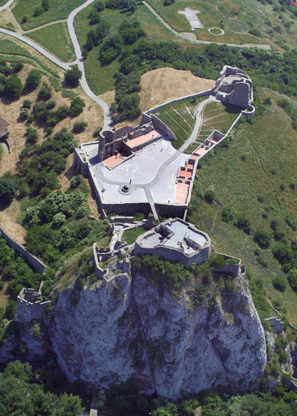 Devín Castle, Slovakia, aerial photography